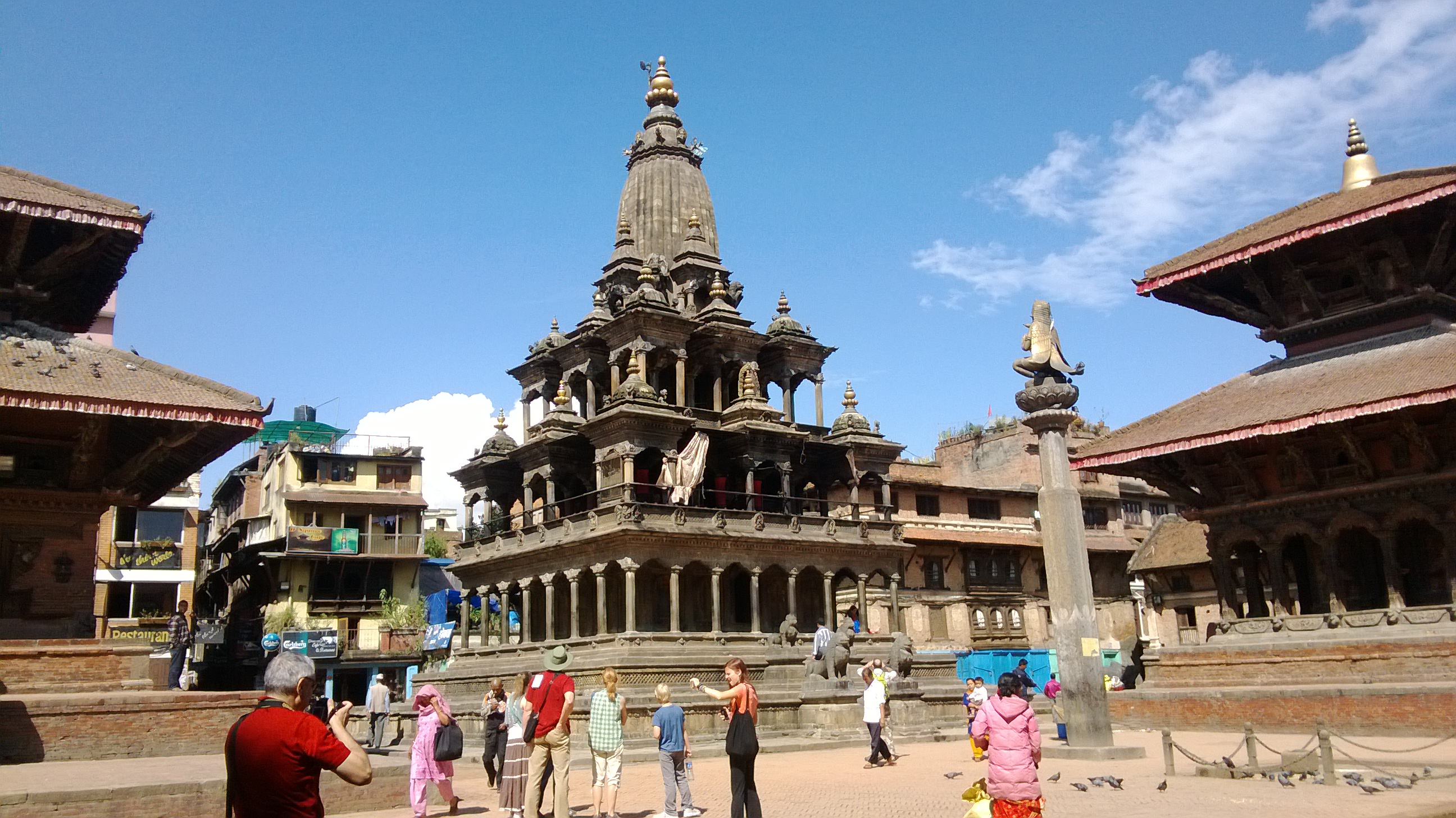 People worshiping lord Krishna in Nepal. Jagannarayan Temple at left background